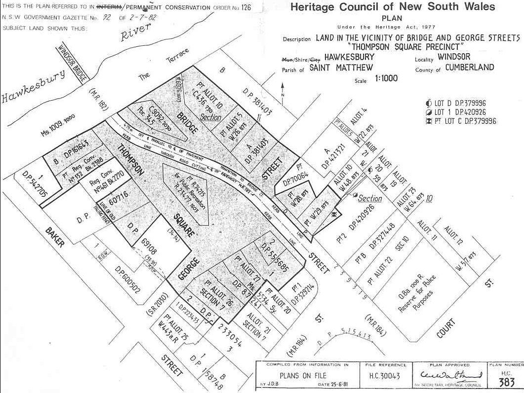 Thompson Square Conservation Area: PCO Plan Number 126